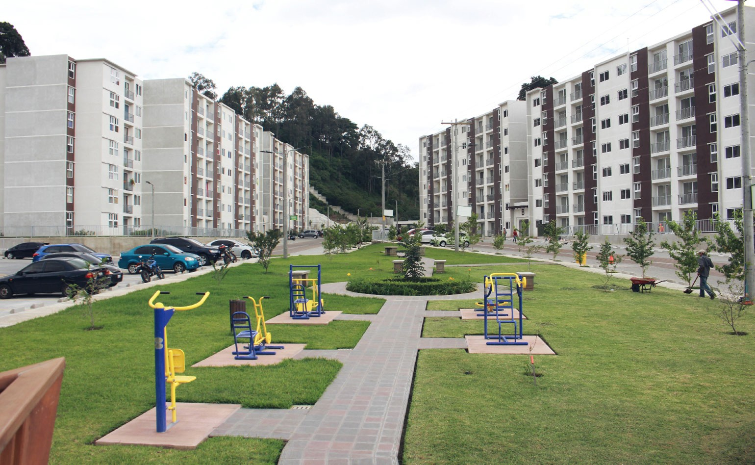 Apartment buildings at zone 5 Villa Nueva City